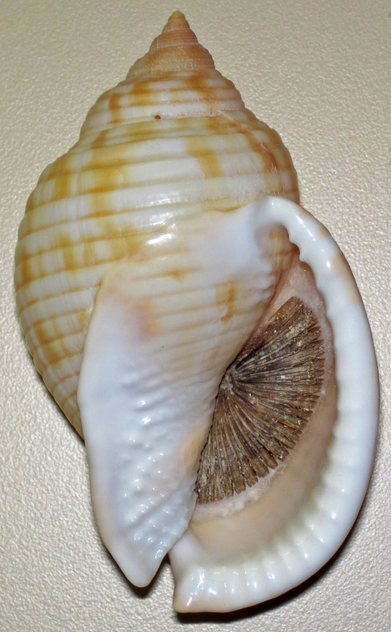 Semicassis granulata undulata (Gmelin, 1791) - Mediterranean bonnet snail (apertural view) (public display, Bailey-Matthews Shell Museum, Sanibel Island, Florida, USA) The gastropods (snails & slugs) are a group of molluscs that occupy marine, freshwater, and terrestrial environments. Most gastropods have a calcareous external shell (the snails). Some lack a shell completely, or have reduced internal shells (the slugs & sea slugs & pteropods). Most members of the Gastropoda are marine. Most marine snails are herbivores (algae grazers) or predators/carnivores. The Mediterranean bonnet snail shown above is part of the Lusitanian Province: "Concentrated in the mild temperatures of the Mediterranean Sea, and extending to the warmer waters of the Canary Islands and the cooler areas of France and Great Britain, is a fairly rich fauna. These waters support dozens of unique species, such as Jacob's scallop, the oxheart cockle and the European pelican's foot." [info. from museum signage] Classification: Animalia, Mollusca, Gastropoda, Cassidae Locality: unrecorded/undisclosed/unspecified More info. at